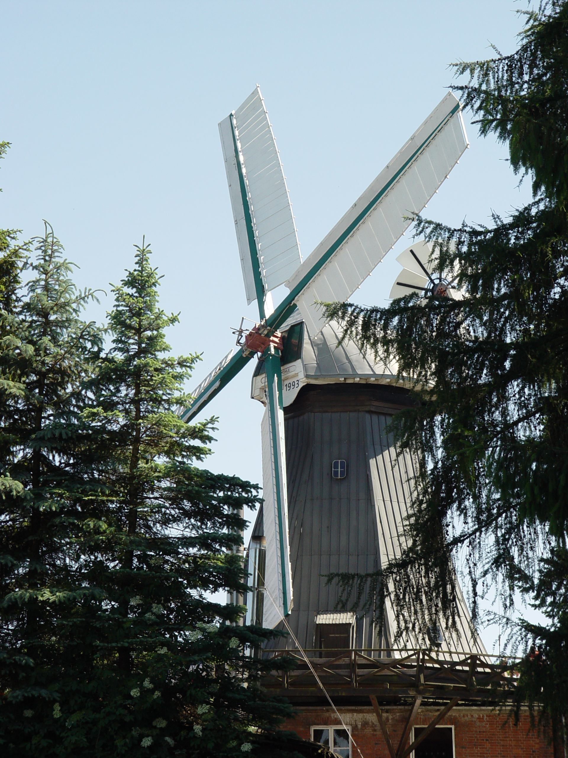 Windmill near the German town of Braak.